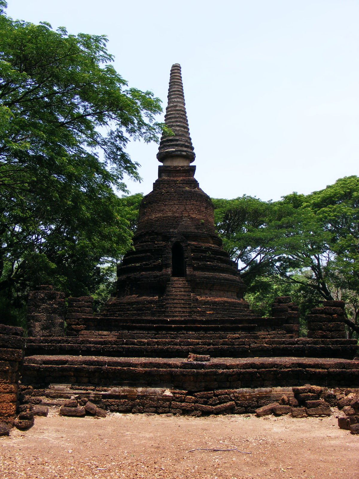 Si Satchanalai historical parkLocation: Si Satchanalai, Sukothai Province, Thailand.